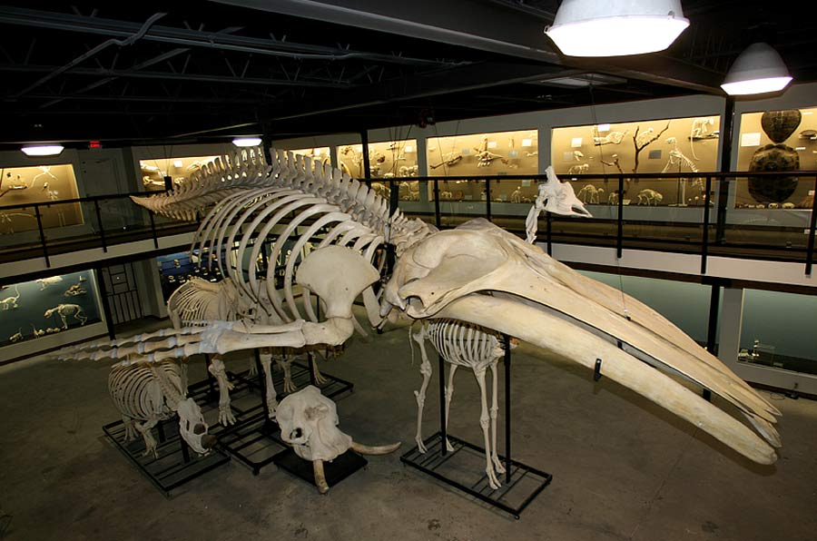 Humpback Whale Skeleton on Display in The Museum of Osteology, Oklahoma City, Oklahoma.